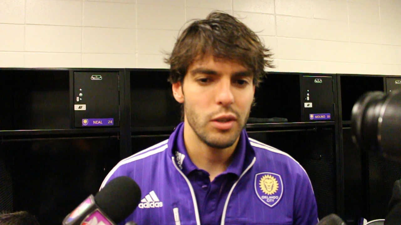 Ricardo Kaká speaks to the media following Orlando City's 1-0 victory against the Houston Dynamo on Friday, March 13, 2015 at BBVA Compass Stadium in Houston, Texas. The road win marked Orlando's first Major League Soccer victory in franchise history.